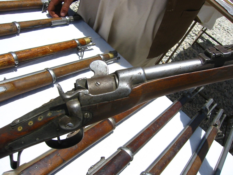 Receiver of a Werndl rifle (Austro-Hungarian) photographed at the bazaar aboard Bagram Airfield in Afghanistan. Unsure as to whether it is original or a Khyber Pass Copy.